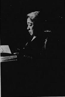 Portrait of Hirooka Asako